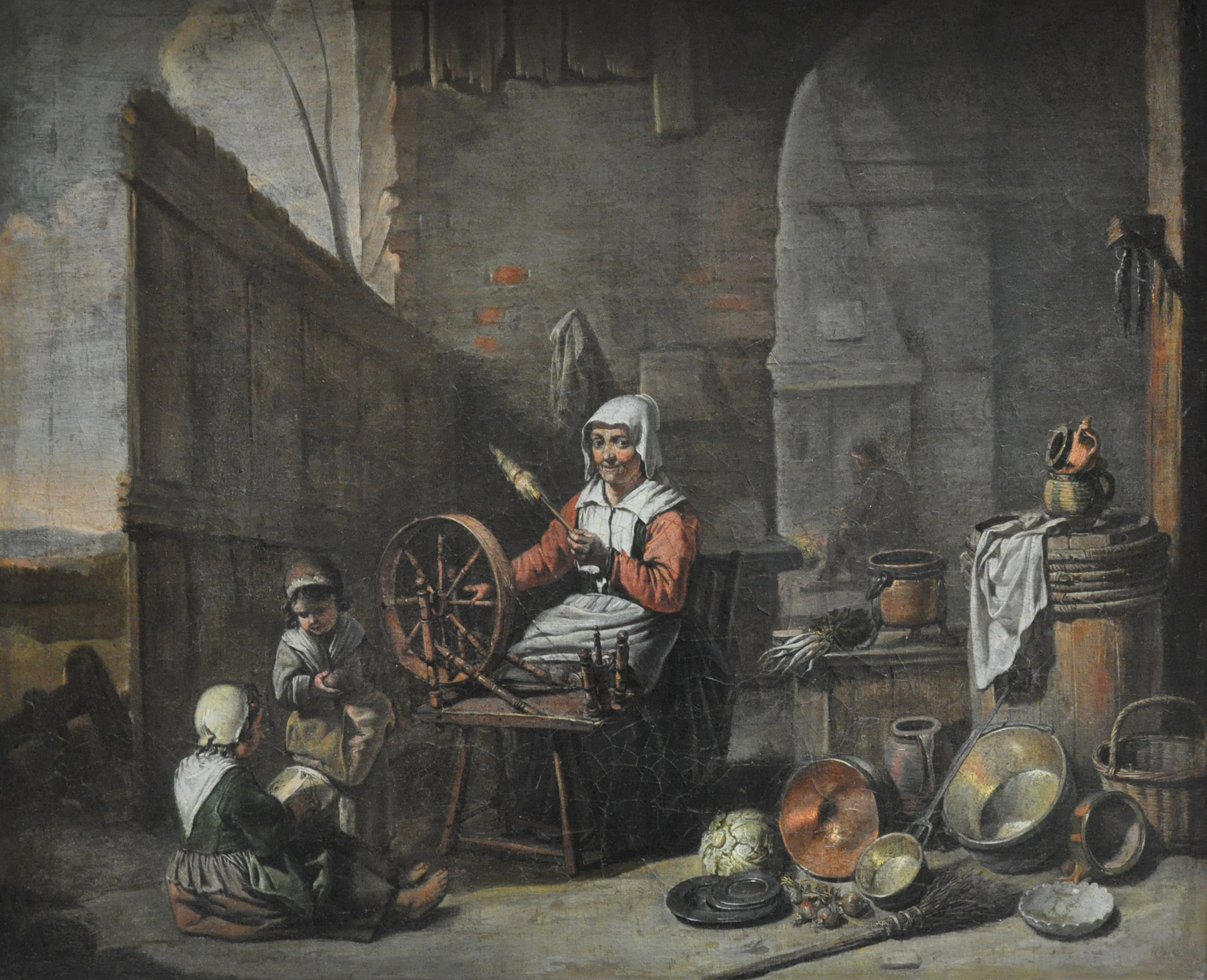 Spinning wheel, XVIIth, in Rouen (France)